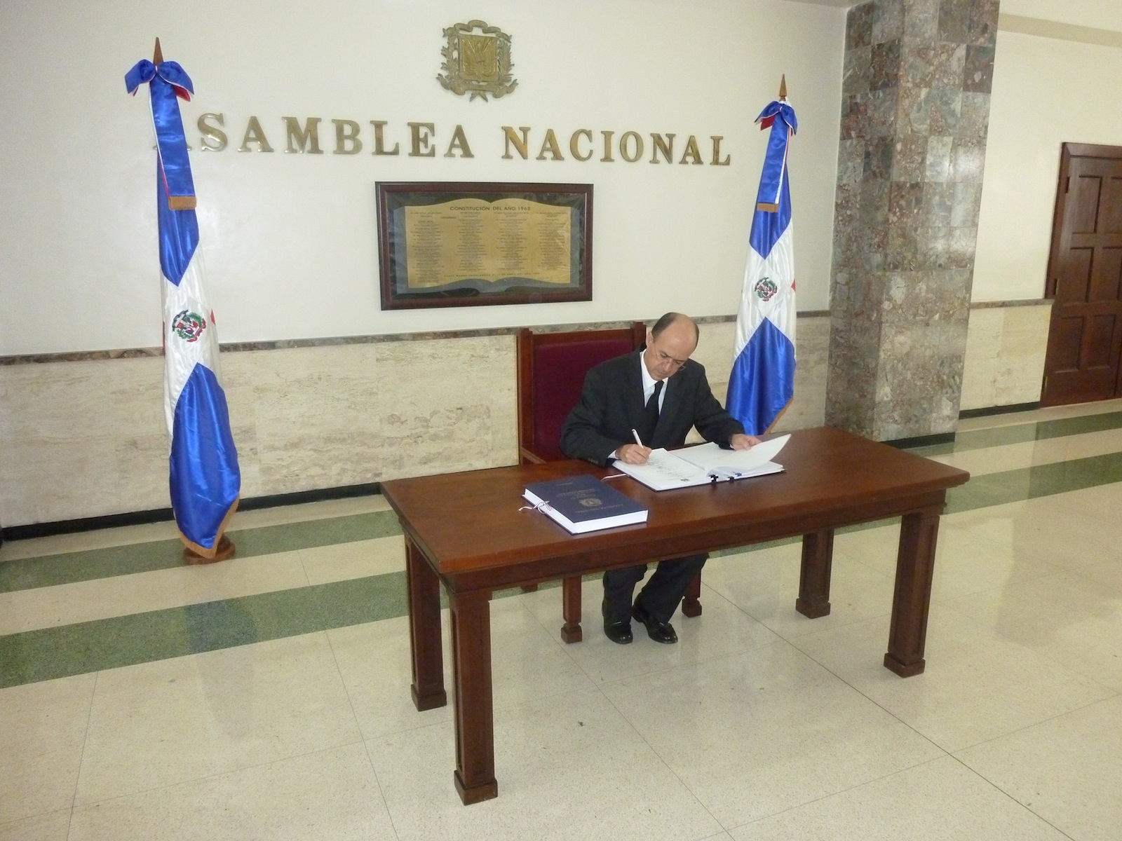 Constitution signature.